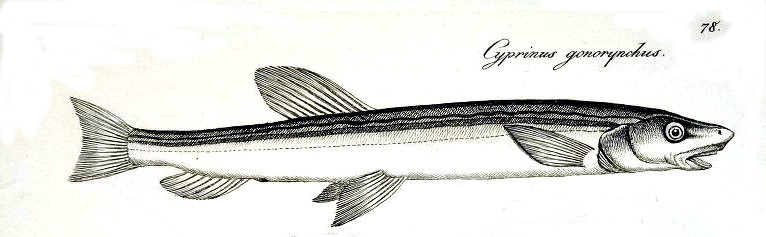 Gonorynchus gonorynchus